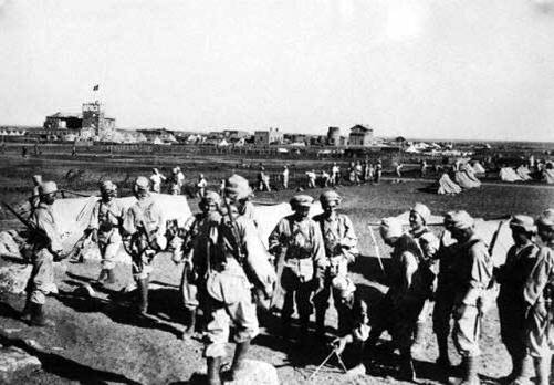 The French Army on the Syrian coast, proclaiming the French Mandate